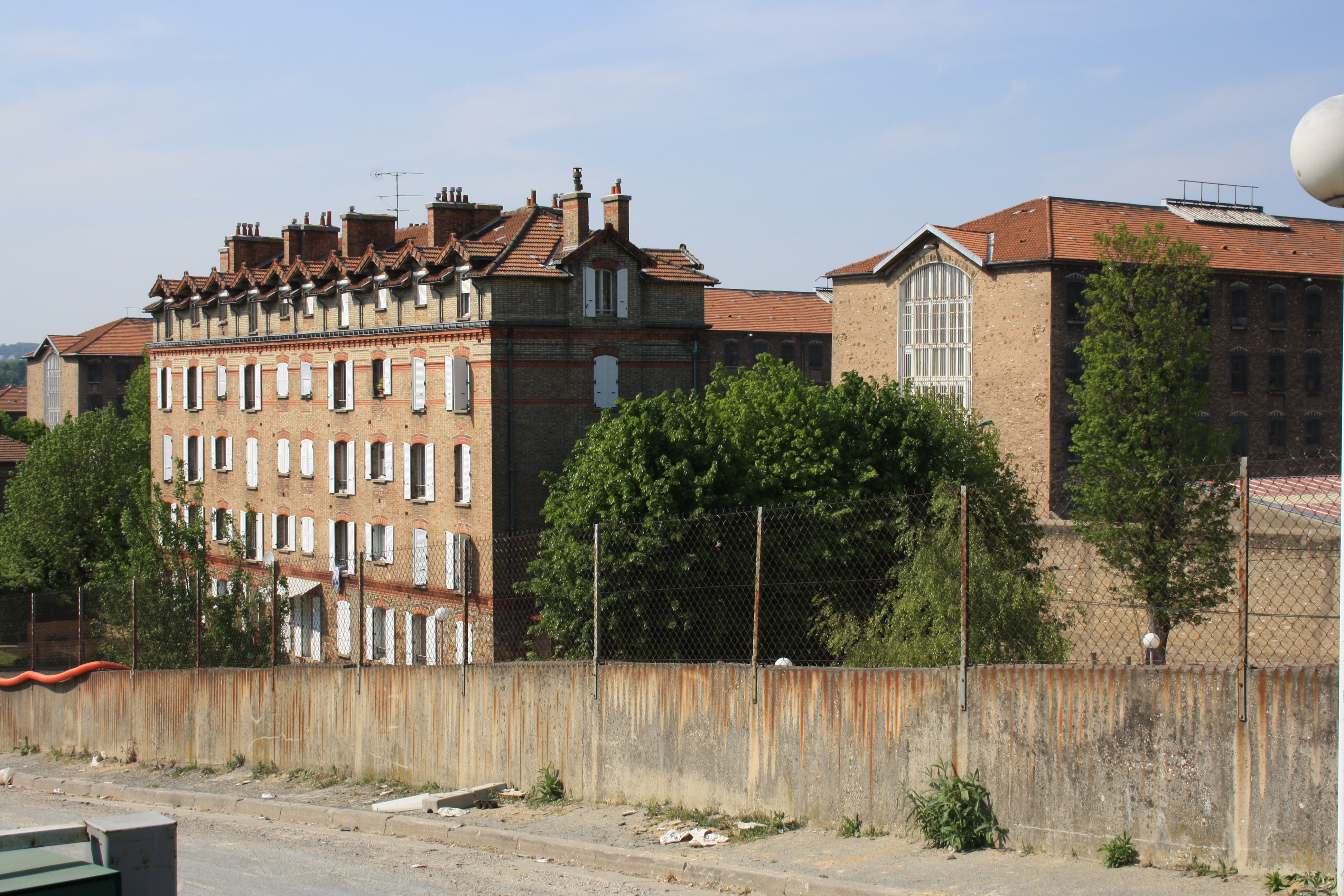 Prison in Fresnes near Paris, France